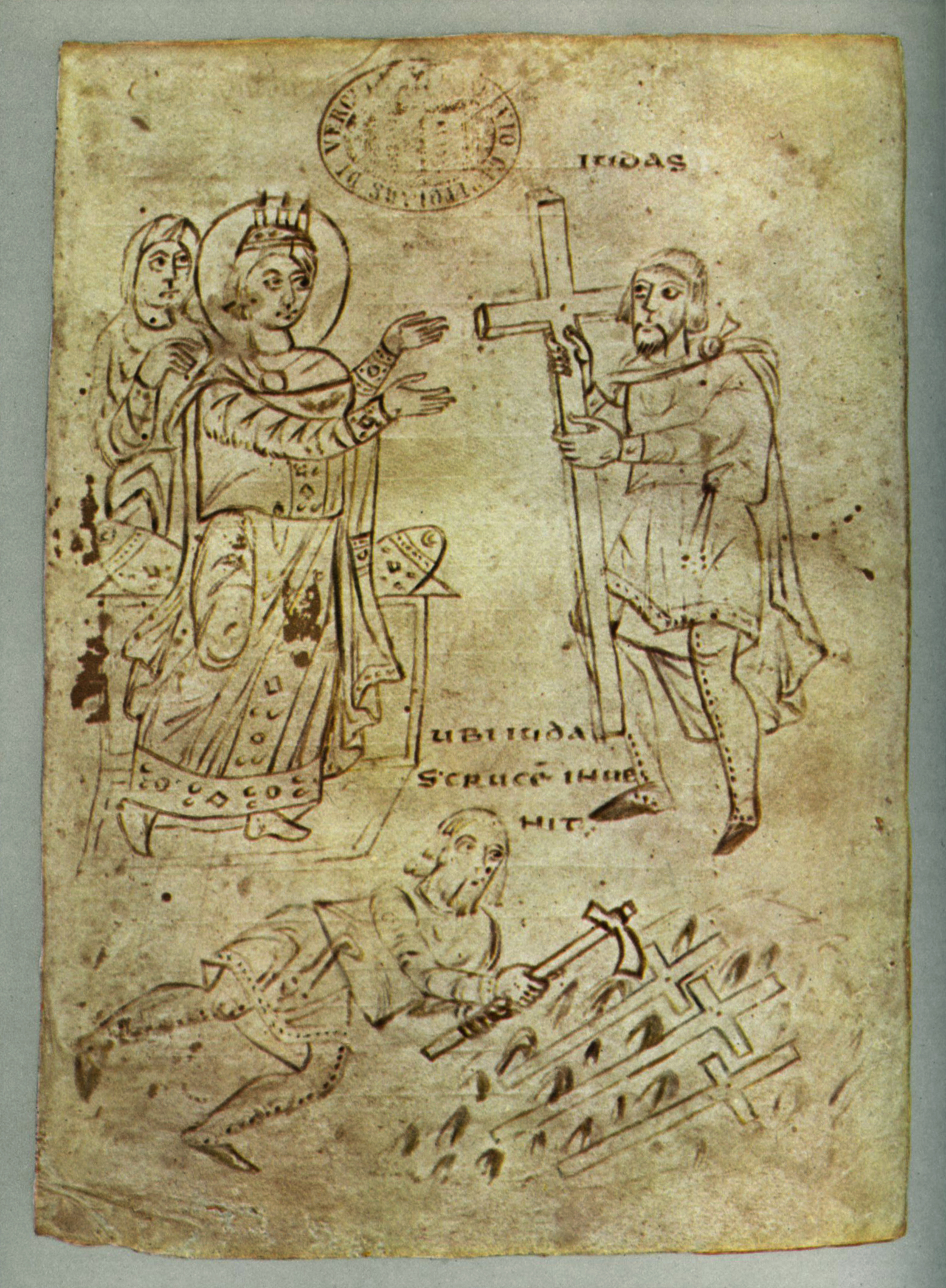 Finding of the true cross by St Helena. Illustration from MS CLXV, Biblioteca Capitolare, Vercelli, a compendium of canon law from Northern Italy, ca. 825.